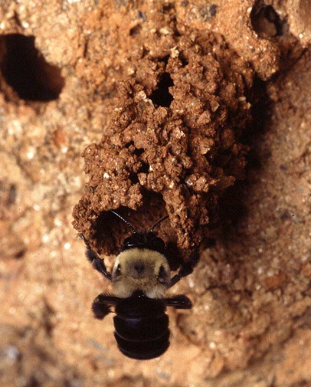 A mustached mud bee (Anthophora abrupta). Image Number K8172-4.